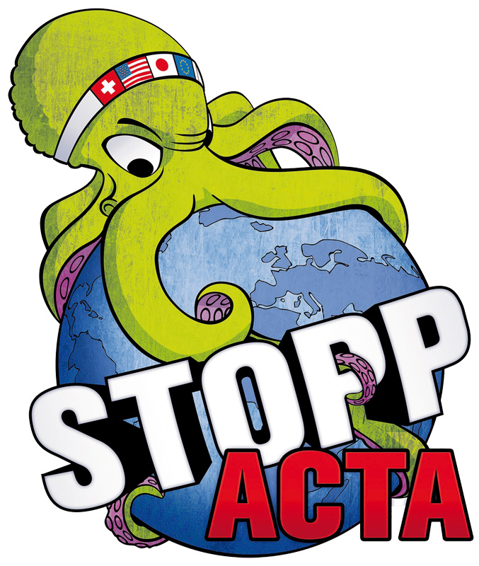 Stop ACTA Octupus